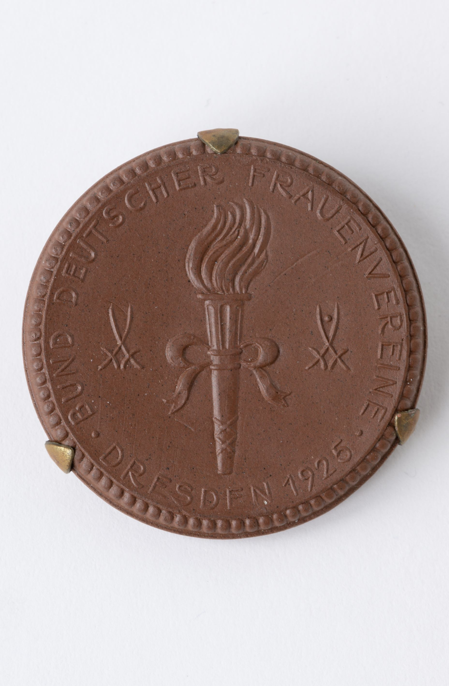 Bund Deutscher Frauenvereine (Federation of German Women's Associations), button, ceramics, Dresden 1925. Photo of button in repository of Archiv der deutschen Frauenbewegung (Archive of German Women's Movement), Kassel, Signature NL-K-30; 9. Photographer: Horst Ziegenfusz on behalf of Historisches Museum Frankfurt (Historical Museum Frankfurt). Published in Dorothee Linnemann (ed.): Damenwahl! 100 Jahre Frauenwahlrecht. Begleitbuch zur Ausstellung. Societäts-Verlag, Frankfurt am Main 2018, ISBN 978-3-95542-306-3, p. 71.